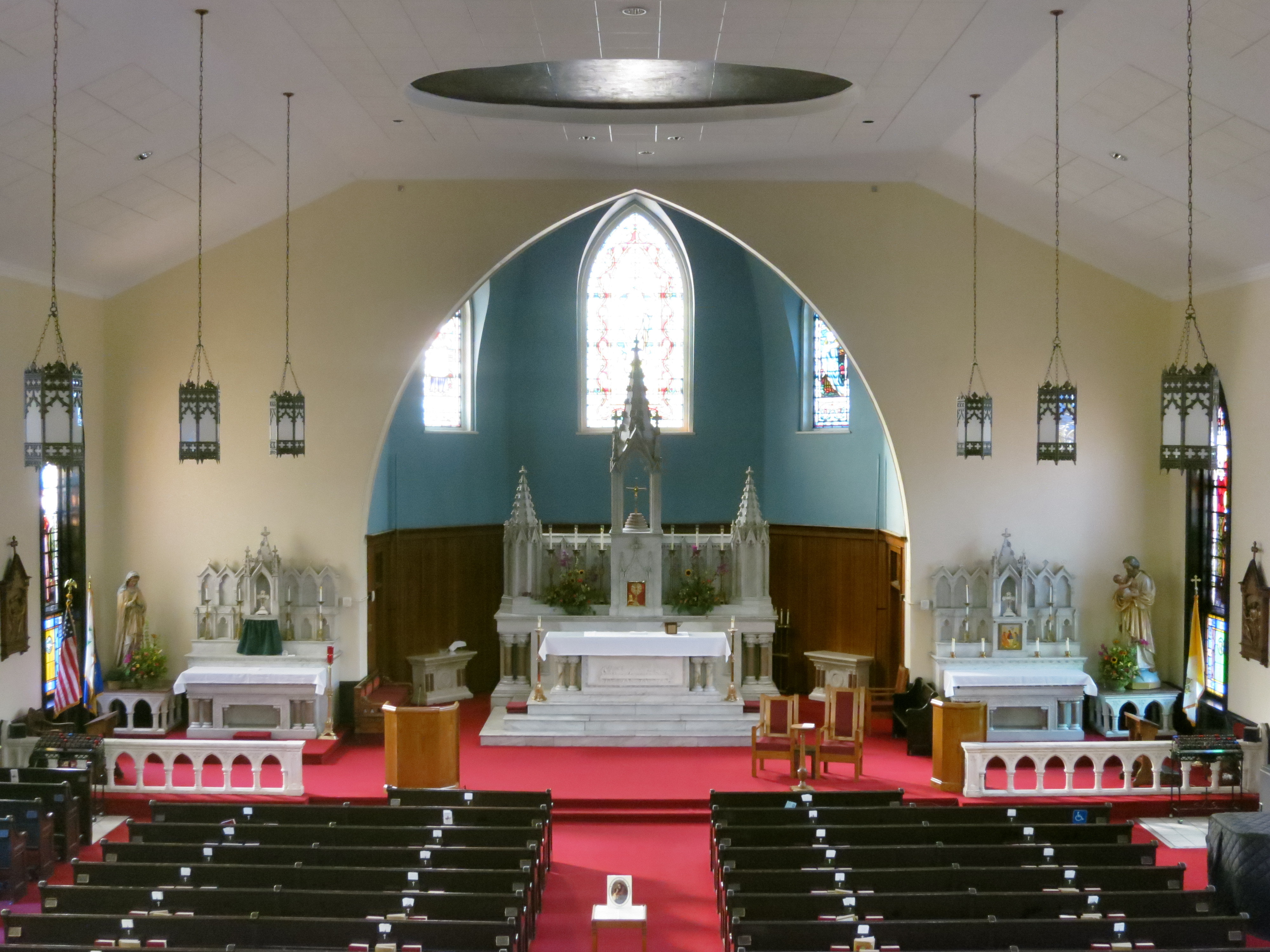 Immaculate Conception Catholic Church (Knoxville, Tennessee) - nave, view from the loft 2